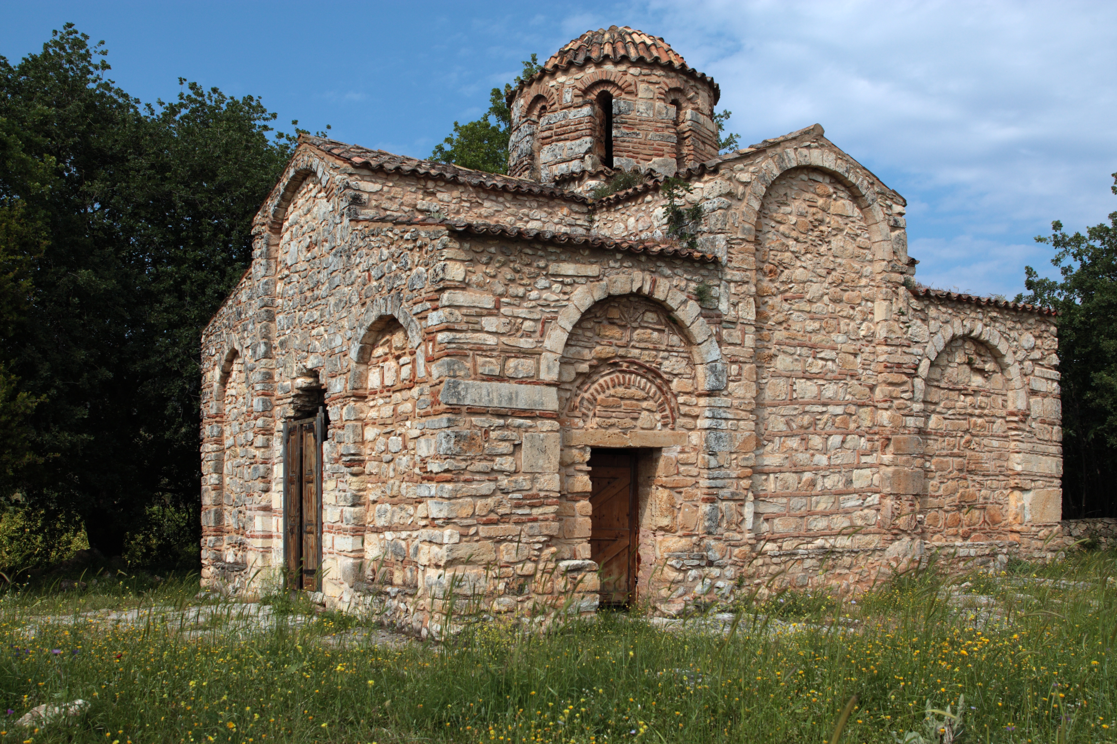 The Panagia Serviotisa Church in Stilos, Crete